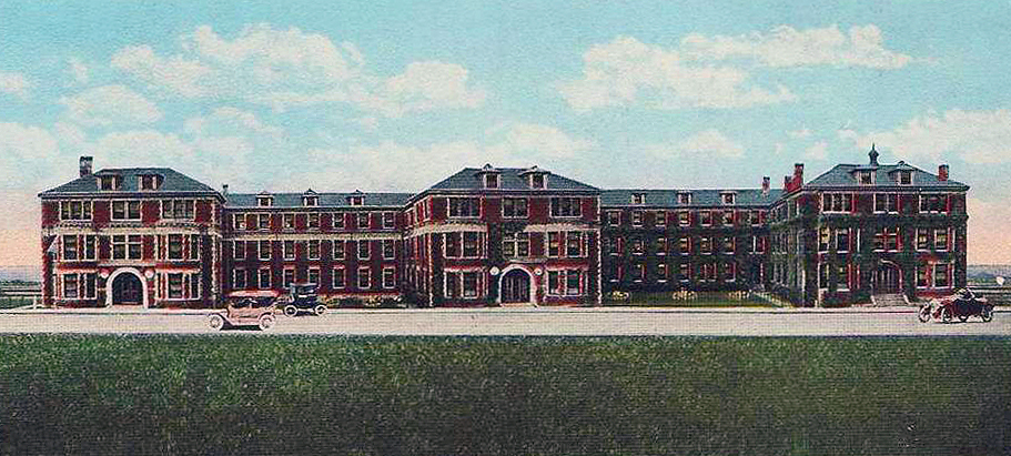 Maine Central Railroad General Office Building, Portland, ME; from a c. 1920 postcard published by Chisholm Brothers, Portland, Maine. Designed by Winslow & Wetherill, the office building (then the state's largest devoted to a single corporation) was completed in 1916. It was listed on the National Register of Historic Places in 1988.